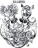 Coat of Arms/Blason of the German Counts of Hallberg